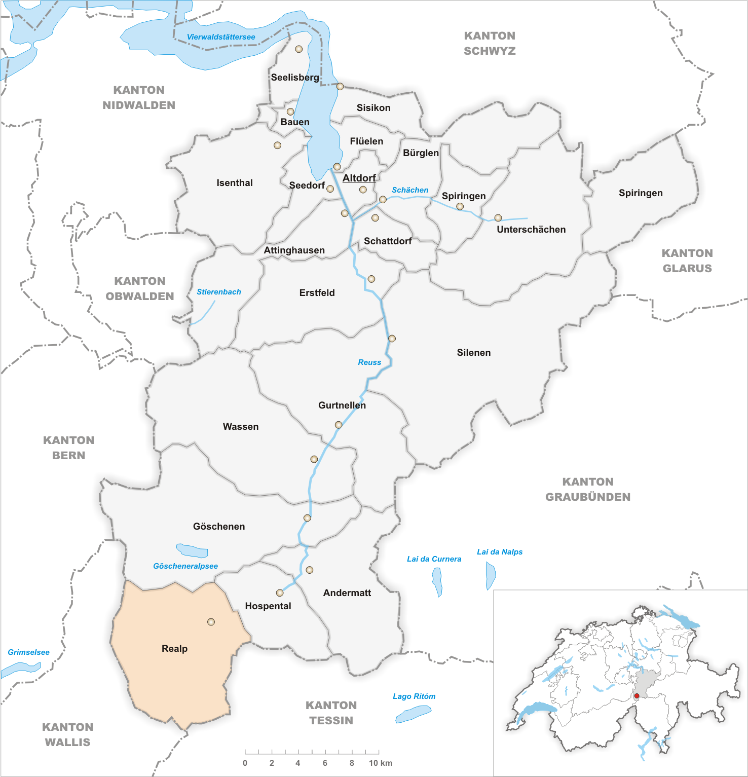 Municipality Realp